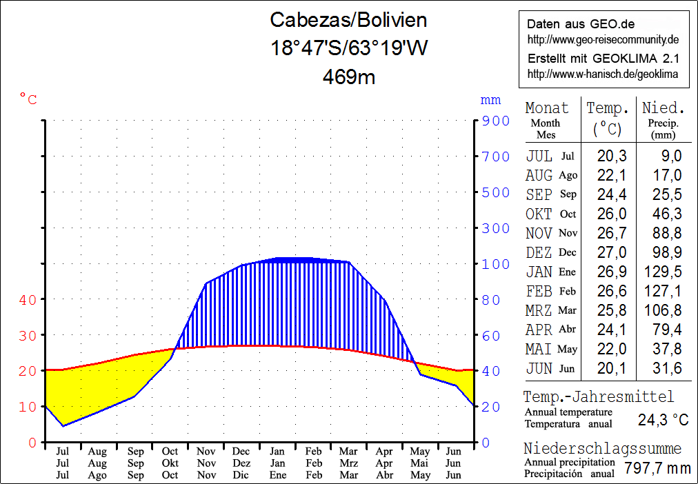 Climate chart in the Walter and Lieth format, metric, °Celsius und millimeters, made with Geoklima 2.1